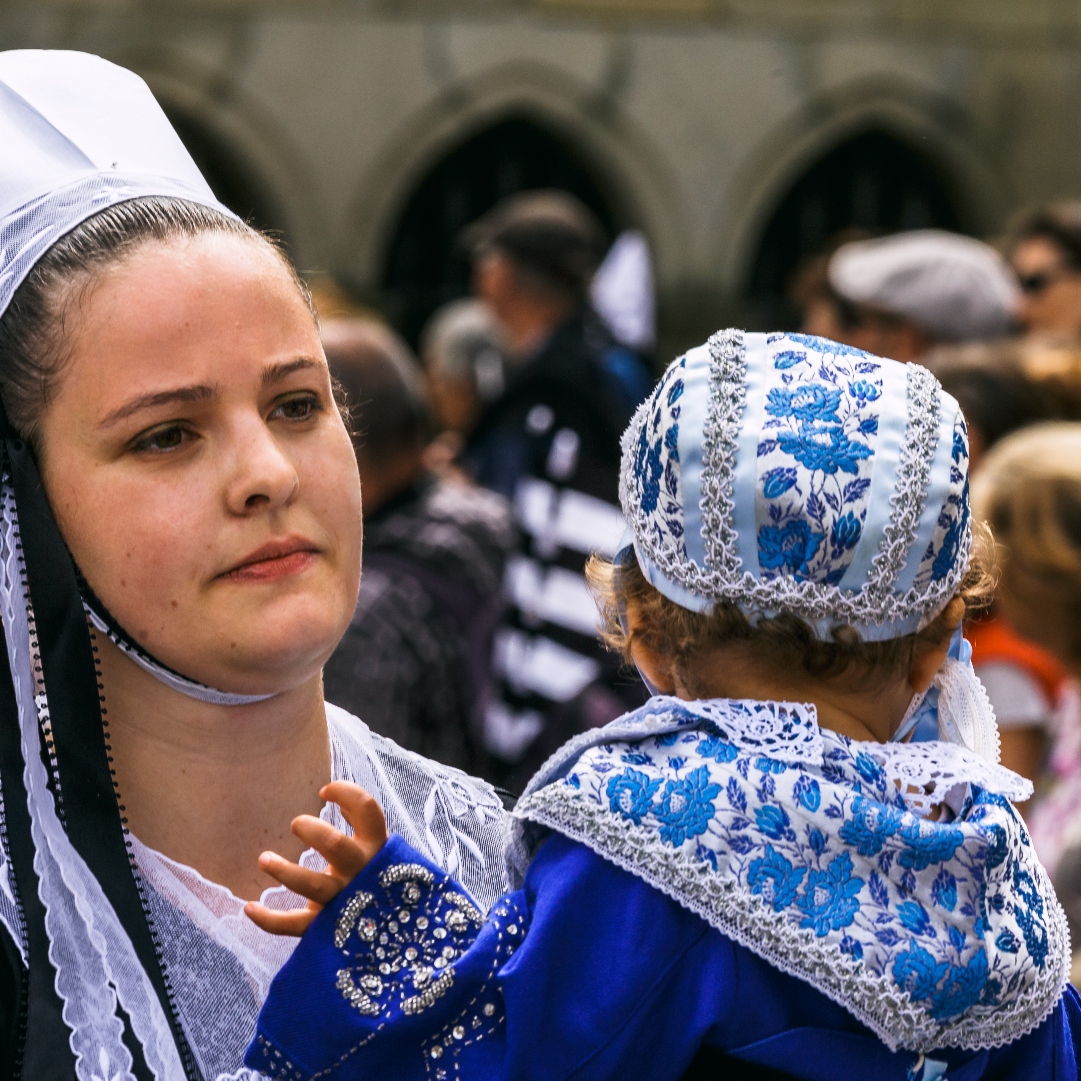 Parade of Breton folk groups during the 2016 Cornouaille Festival in the streets of Quimper.